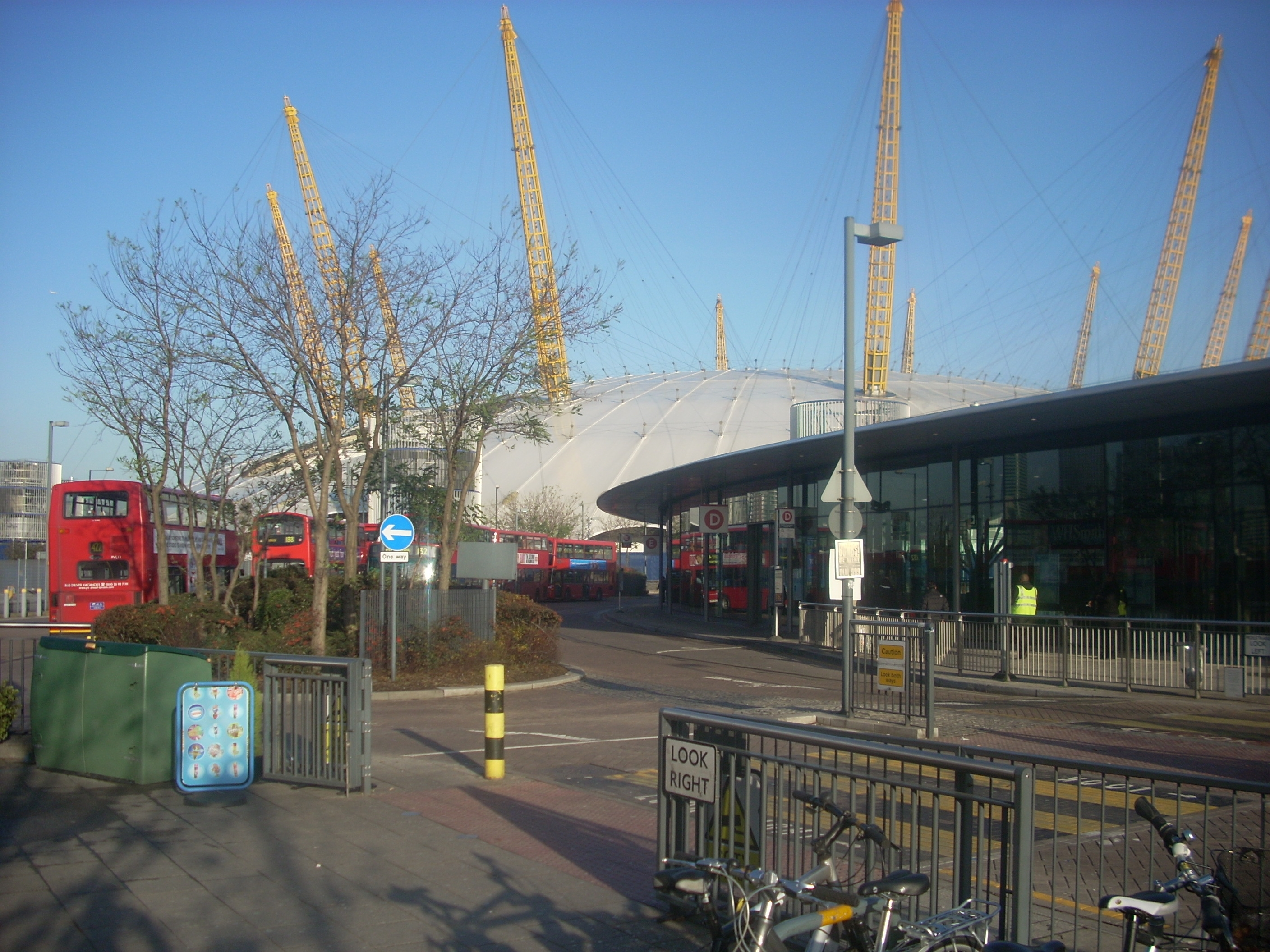 North Greenwich bus station with the O2 in the background one December morning